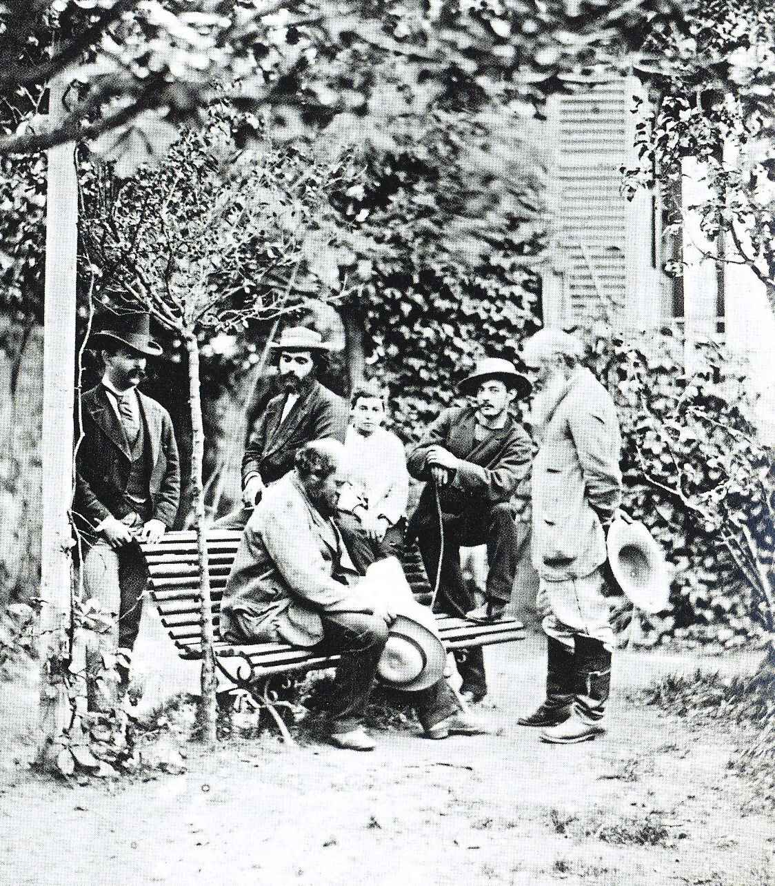 Groupe d'amis à Auvers-sur-Oise en 1874 à droite Camille Pissaro assis Paul Cézanne les autres sont à gauche Martinès (photographe), puis derrière Cézanne , Alphonso (étudiant en médecine et peintre amateur), l'enfant Lucien Pissarro (au mileu) et Aguiar (de Cuba). in Coll Les Pissarro une famille d'artistes, Musées de Pontoise, Pontoise, 2006 p125